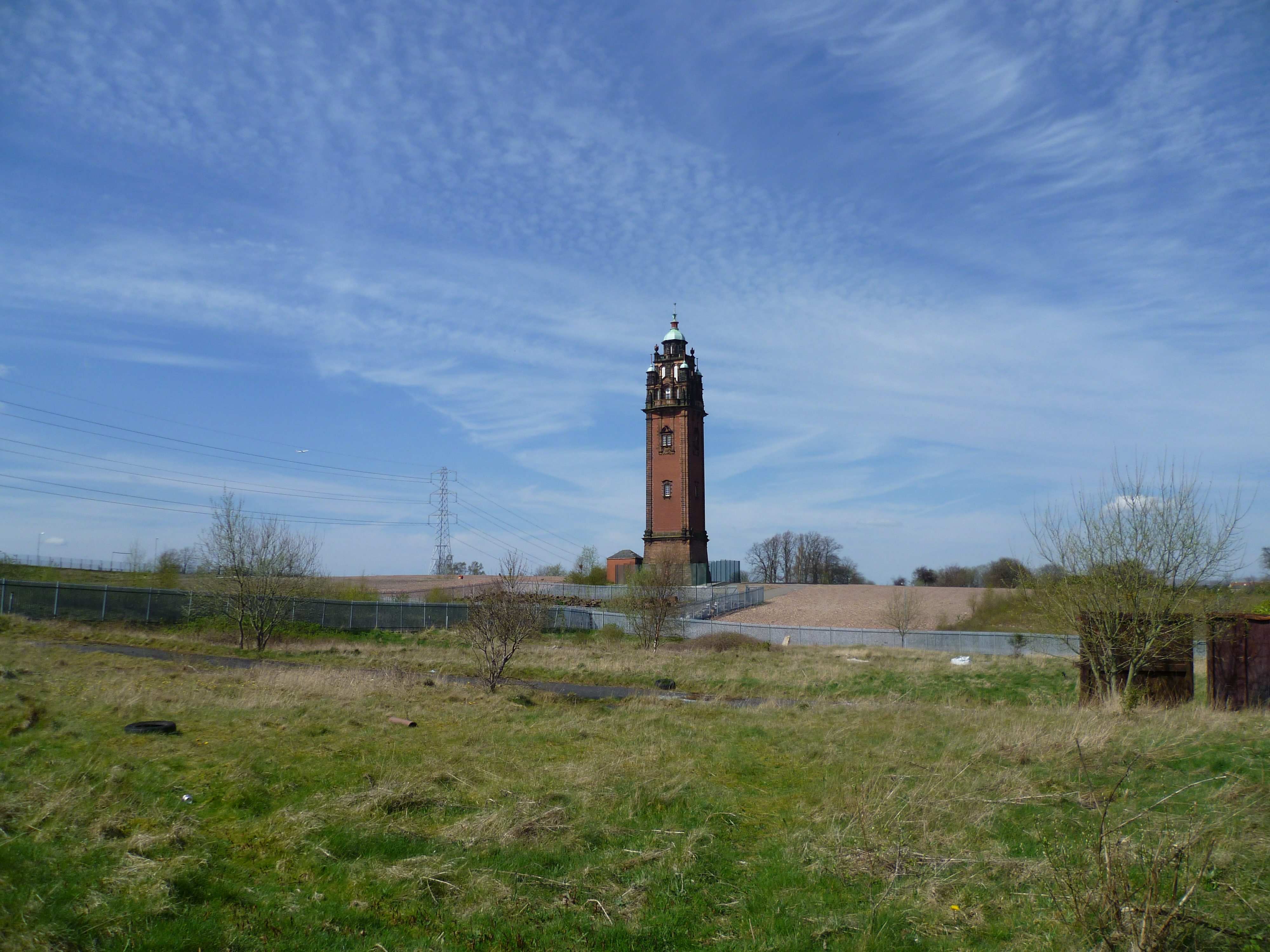 Only the (renovated) water tower left, other buildings razed to the ground.